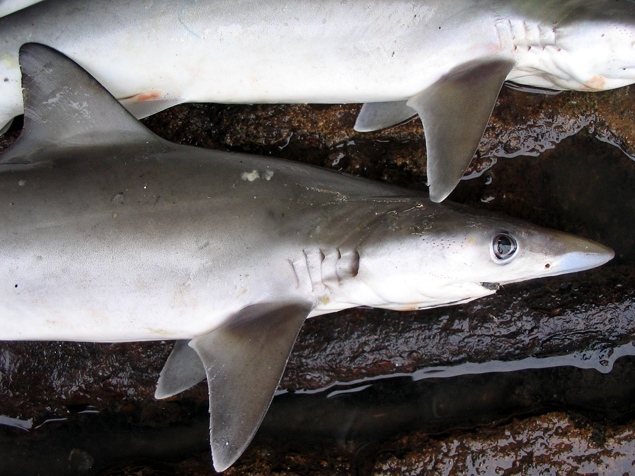 Milk sharks (Rhizoprionodon acutus) on a wharf in Mangalore, Karnataka, India